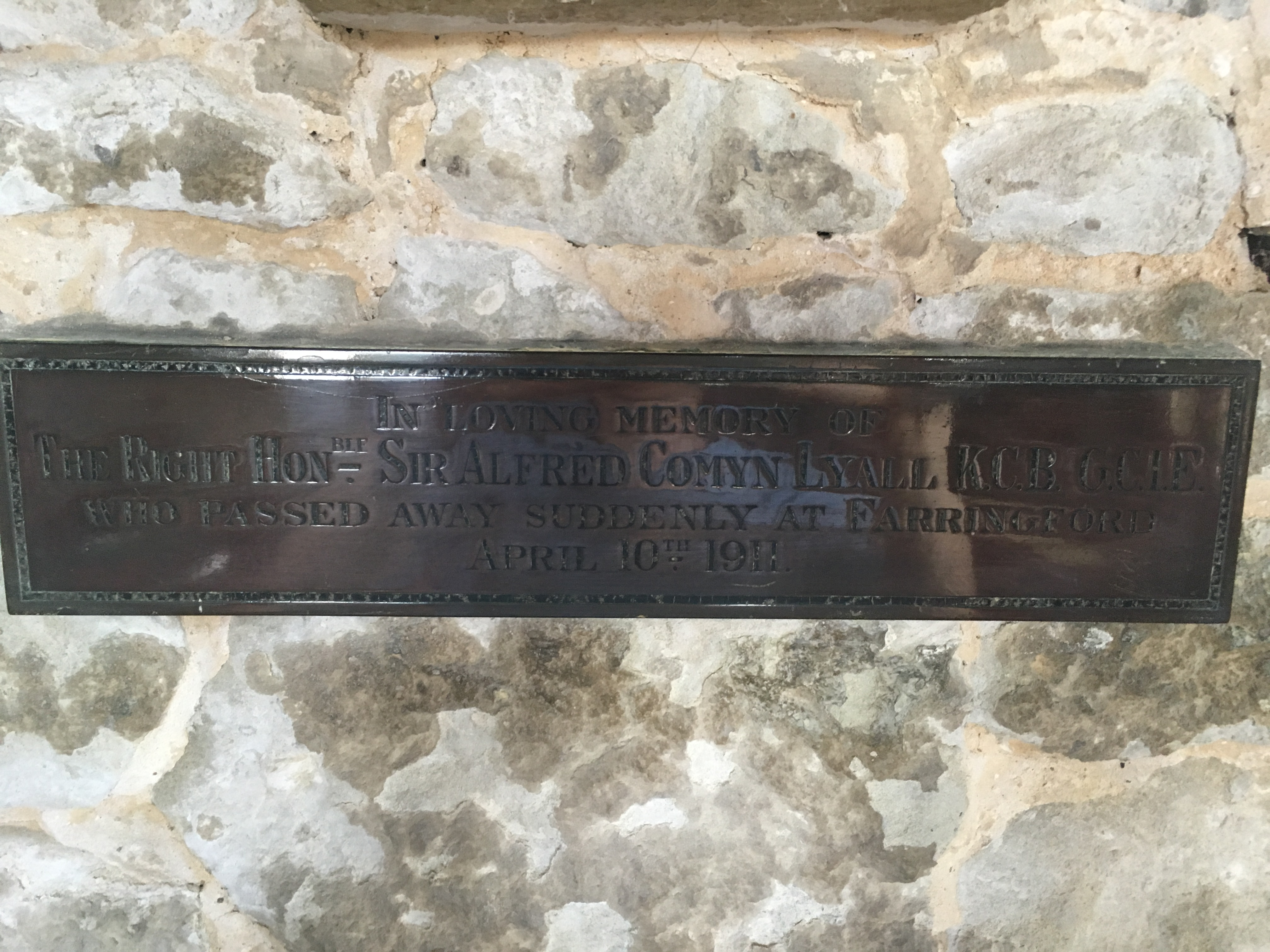 Inscription in memory of Sir Alfred Comyn Lyall in St Agnes church, Freshwater, Isle of Wight